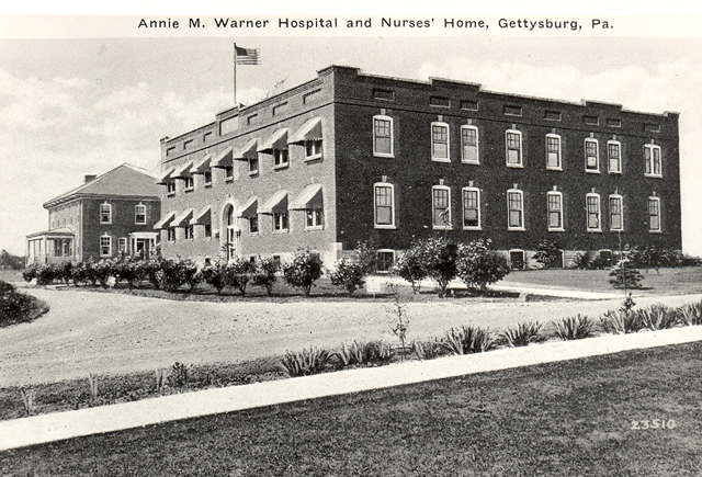 Annie M Warner Hospital and Nurses Home in Gettysburg was opened in 1921. Following an extensive expansion and modernization of the entire hospital complex in the early 1980’s, the facility’s name was changed to The Gettysburg Hospital to better reflect the community it served.